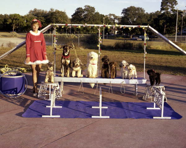 Local call number: JJS0135 Title: Barbara Lee dog act at the Sarasota High School Sailor Circus Date: November 1977 Physical descrip: 1 photonegative - col. - 60 mm. Series Title: Joseph Janney Steinmetz Collection Repository: State Library and Archives of Florida , 500 S. Bronough St., Tallahassee, FL 32399-0250 USA. Contact: 850.245.6700. Persistent URL